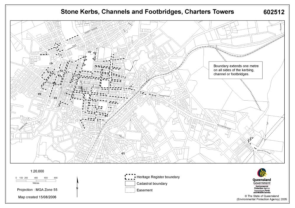 Stone kerbing, channels and footbridges of Charters Towers - boundary map (2006)